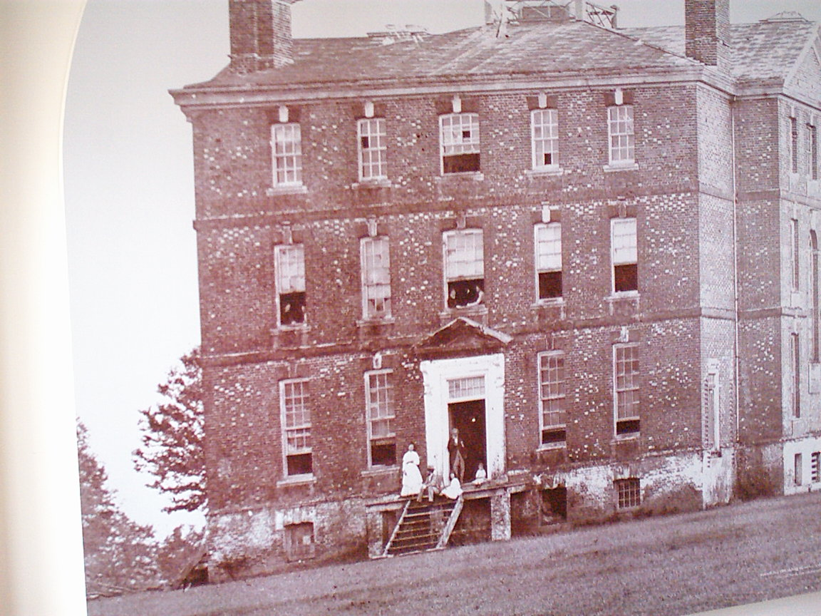 Photograph of Rosewell Plantation, Gloucester County, Virginia, built by the Page family. The home burned to the ground in 1916.